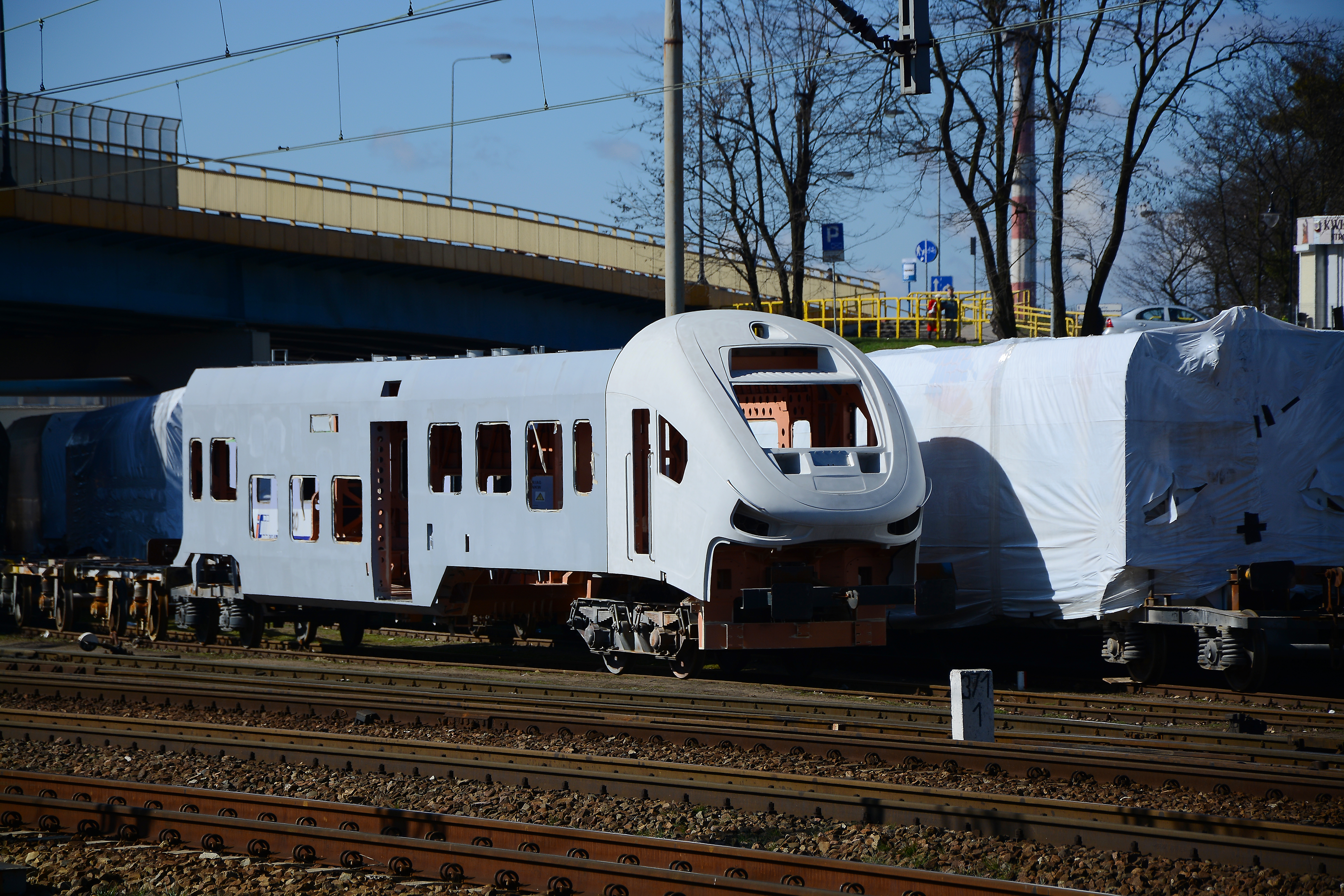 Car of Pesa Link under construction